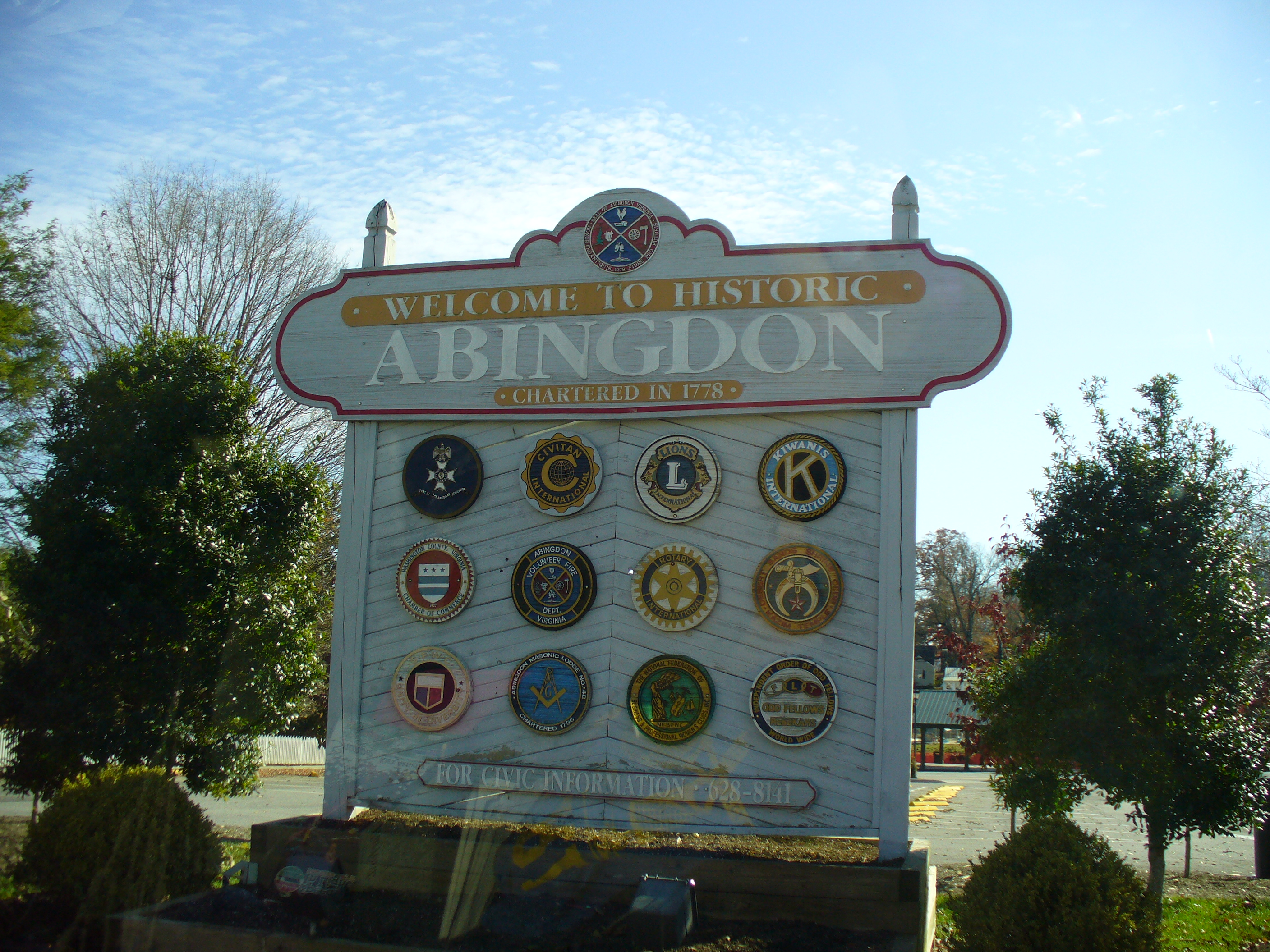 Abingdon Welcome Sign